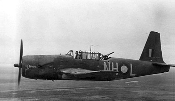 A Vultee Vengeance dive bomber of No. 12 Squadron RAAF based at Merauke, Dutch New Guinea, in flight near its home base in December 1943. The aircraft bears the name "Dianne" with Flight Lieutenant C.J. B. Mcpherson of Horsham, Vic, as pilot and Flight Sergeant Turner as observer.